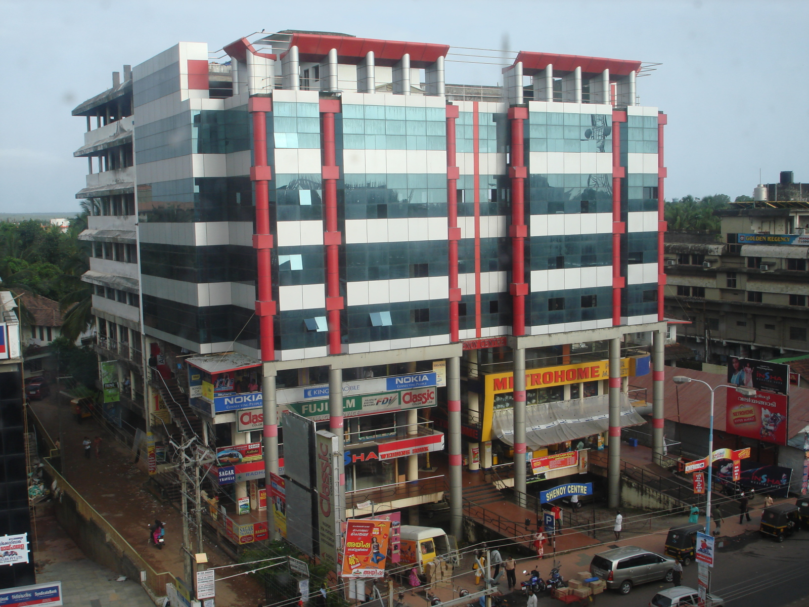 Shenoy center in Fort road Kannur